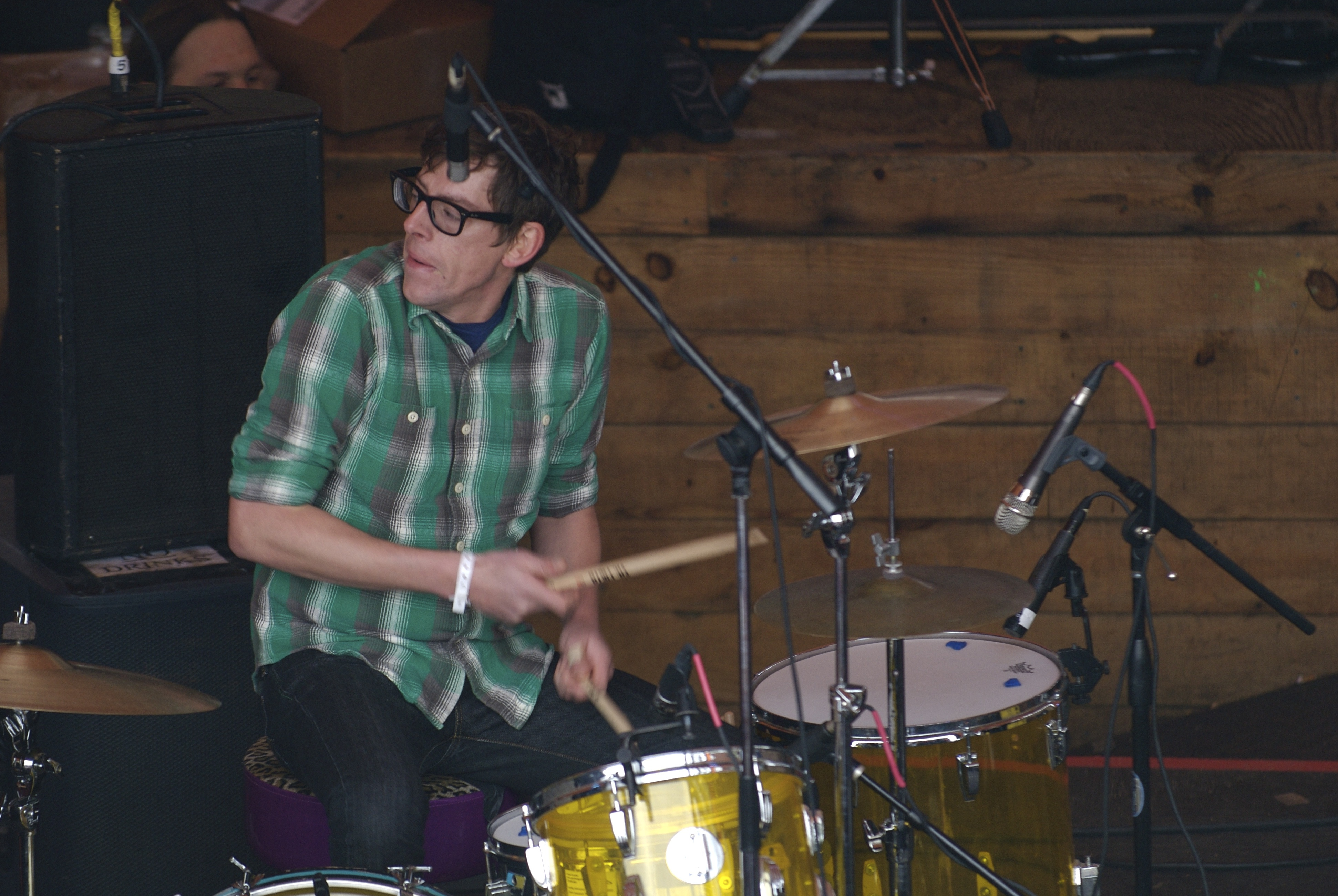 Patrick Carney, playing at SXSW in 2010